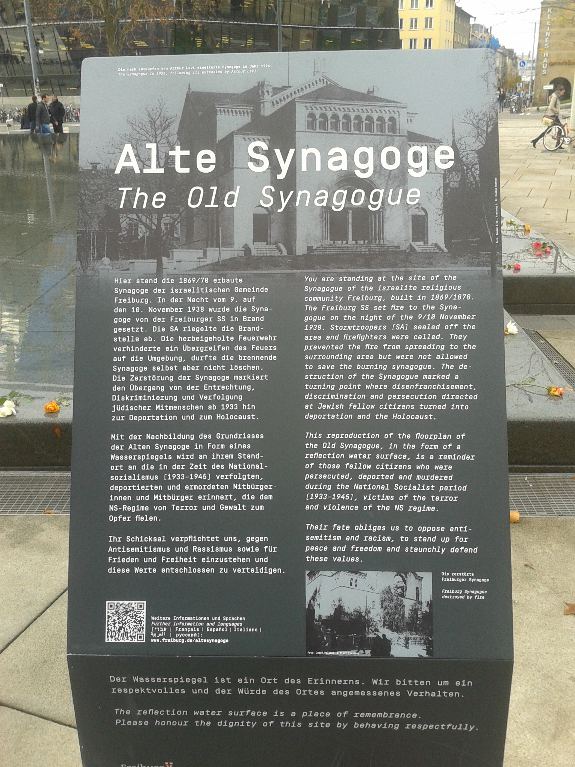 New Info-Panel, Place of the Old Synagogue, Freiburg im Breisgau, Germany